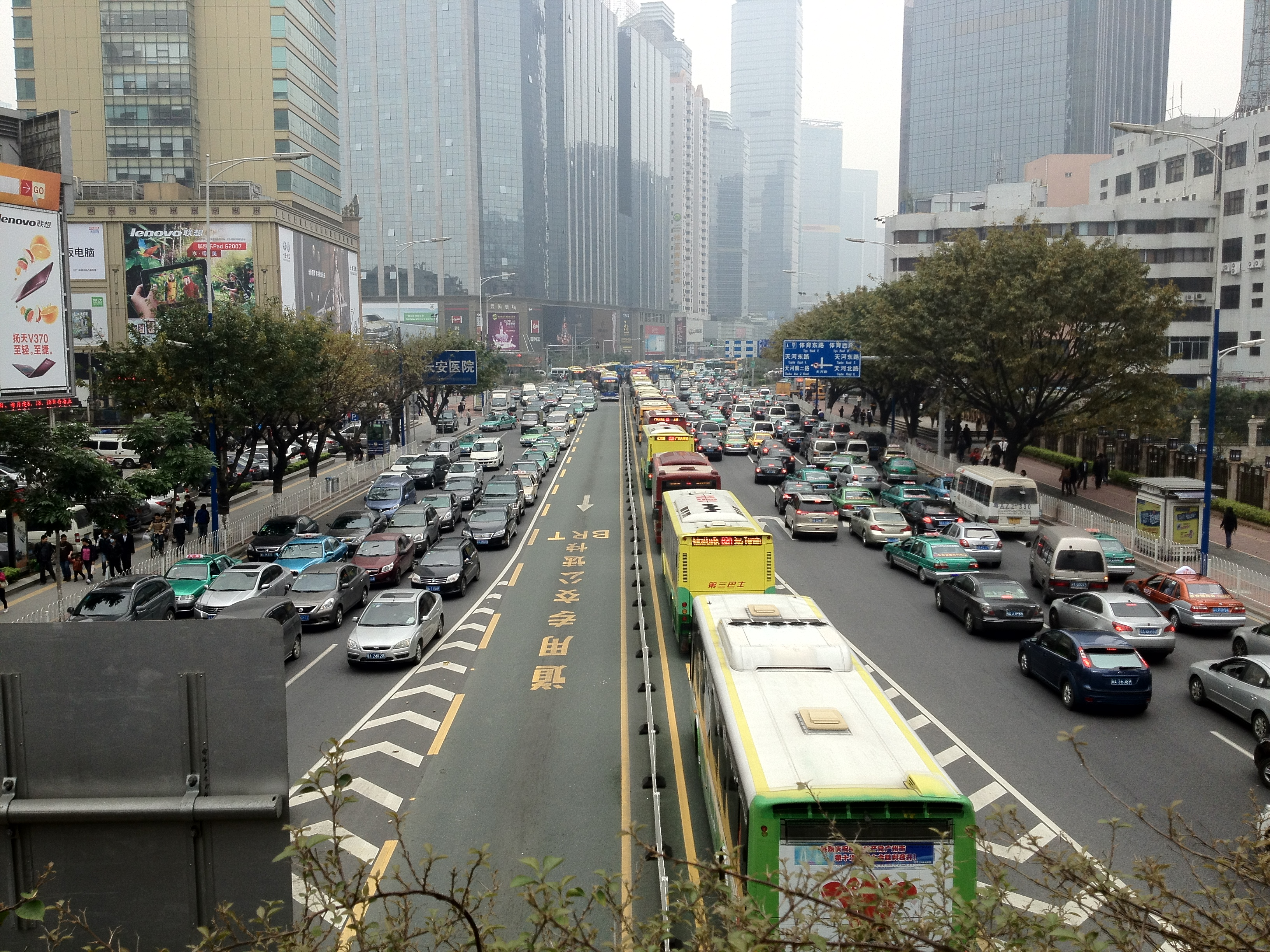 Tianhe Road,Guangzhou